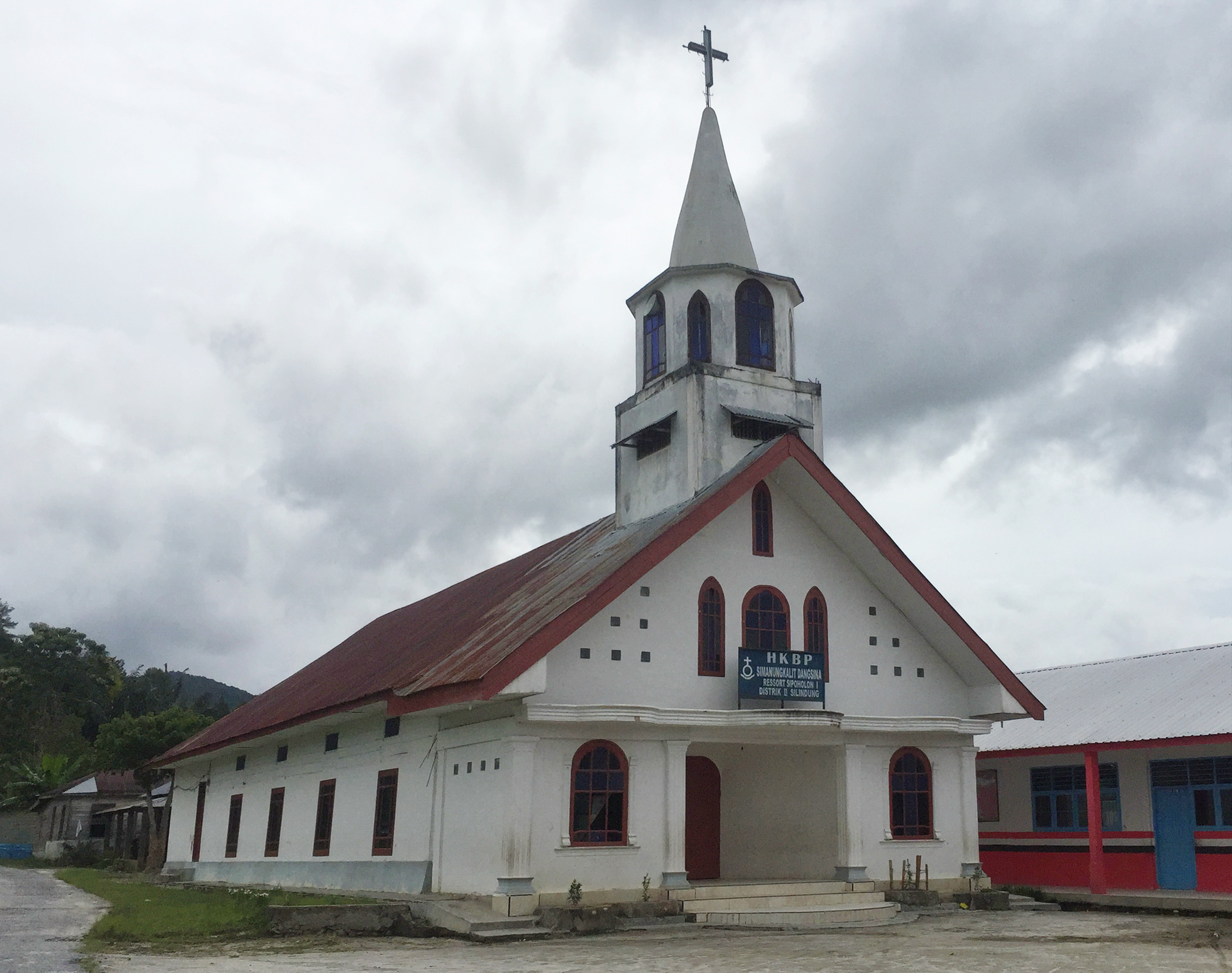 HKBP Simanungkalit Dangsina, Church in Simanungkalit Dangsina, Sipoholon, North Tapanuli